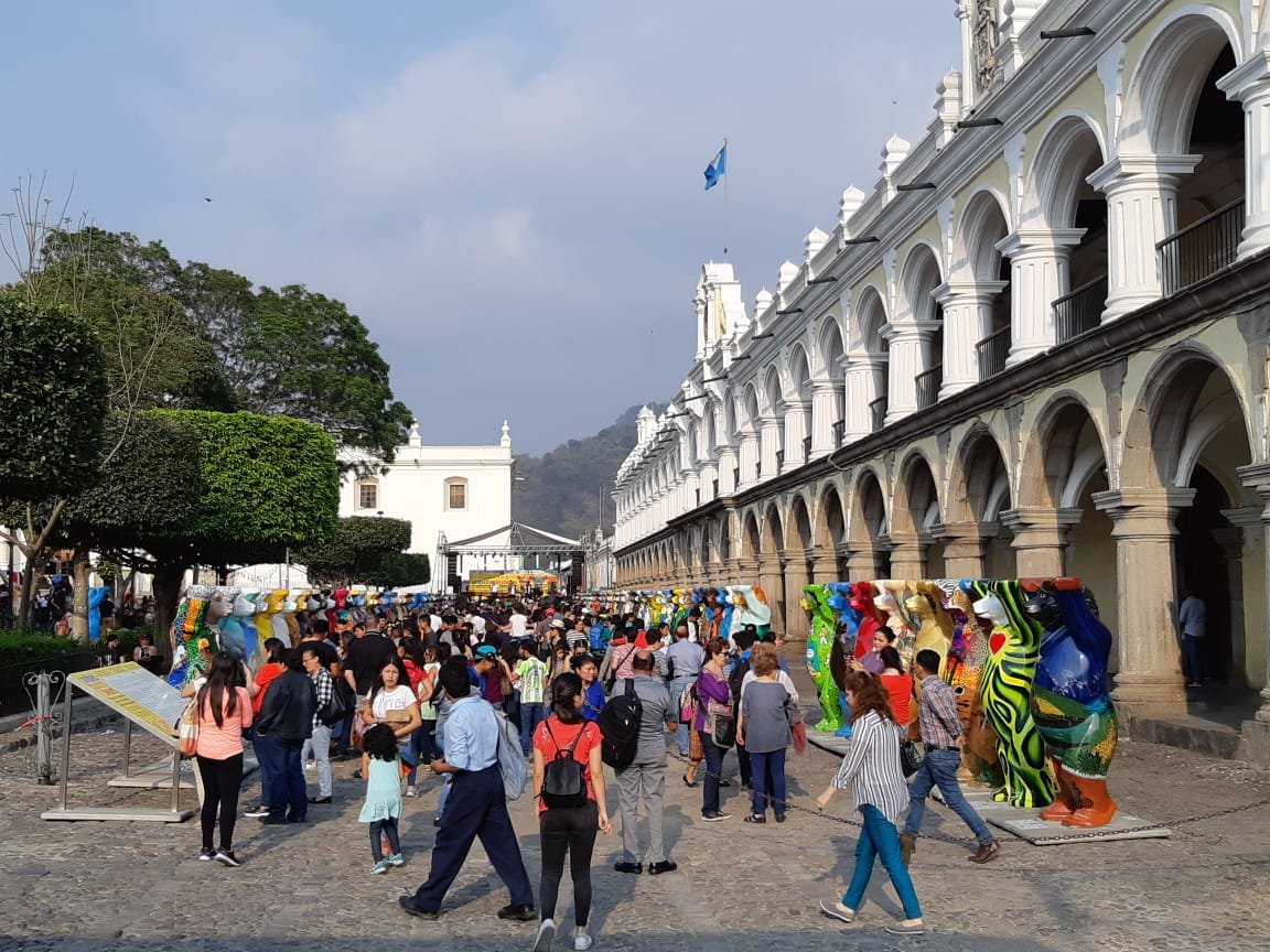 Buddy Bears in Antigua